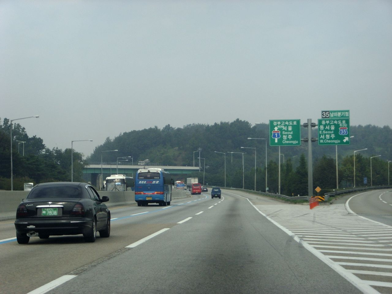 Nami JCT (Gyeongbu Expressway, Jungbu Expressway)